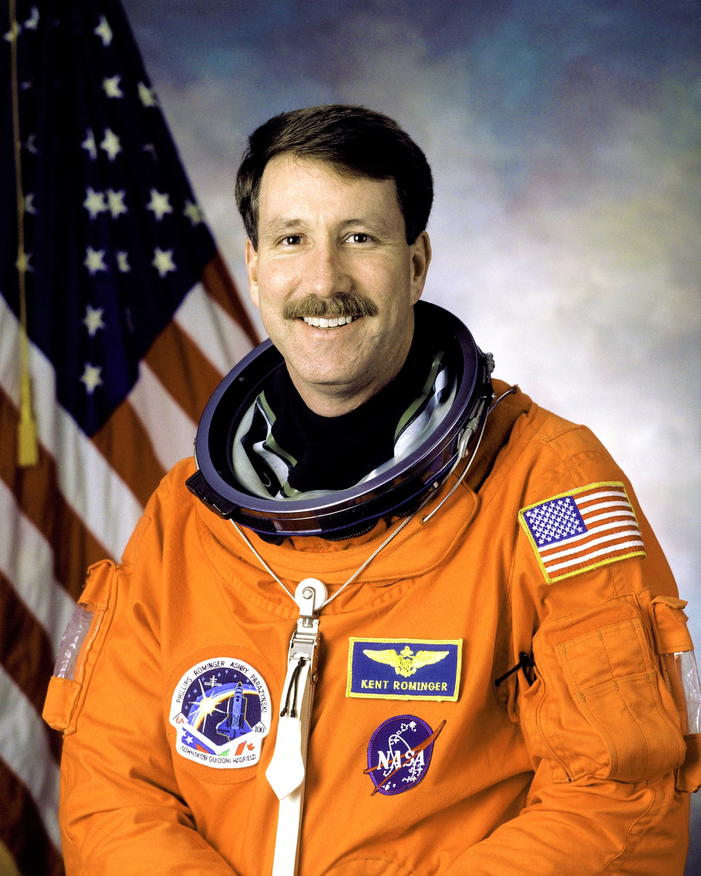 Official portrait of Kent V. Rominger, mission commander